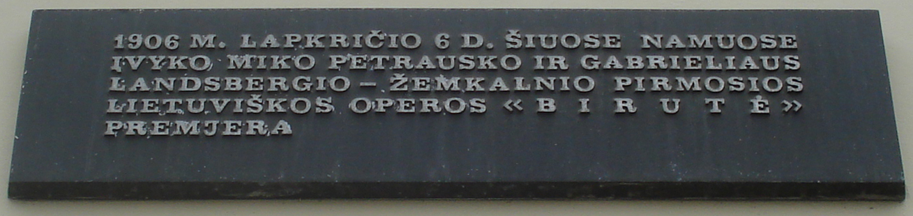 Memorial plaque on the wall of the National Philharmonic Society of Lithuania in Vilnius in memory of the first performance of the first Lithuanian opera "Birute" (1906)